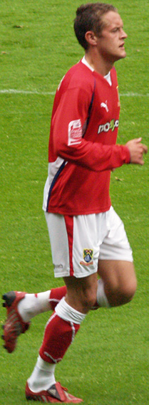 Matthew Blinkhorn. Image cropped from original at flickr.